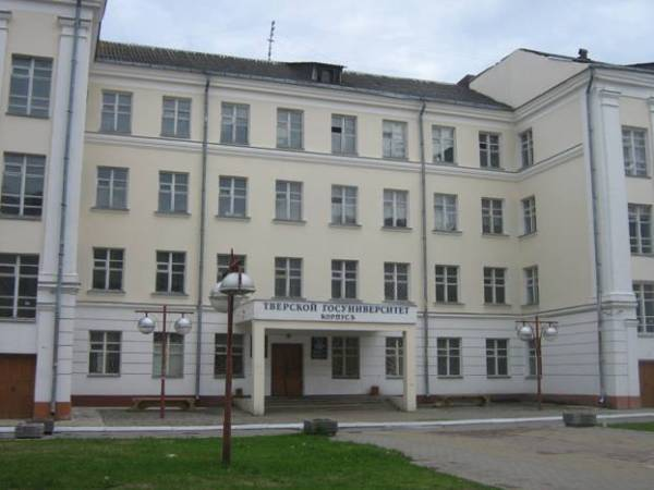 Tver_university, corpus B